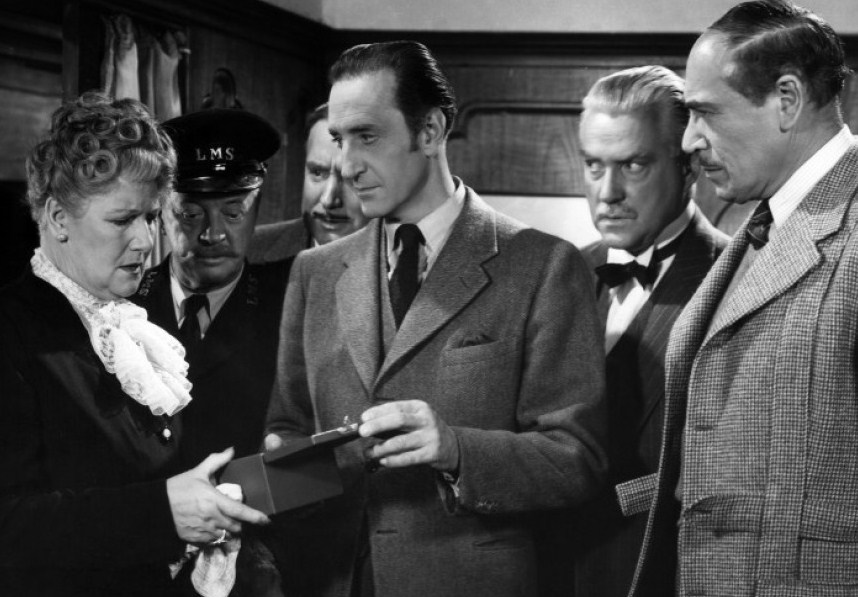 Left to right : Mary Forbes, Billy Bevan, Alan Mowbray, Basil Rathbone, Nigel Bruce, and Dennis Hoey, in Terror by Night - cropped screenshot